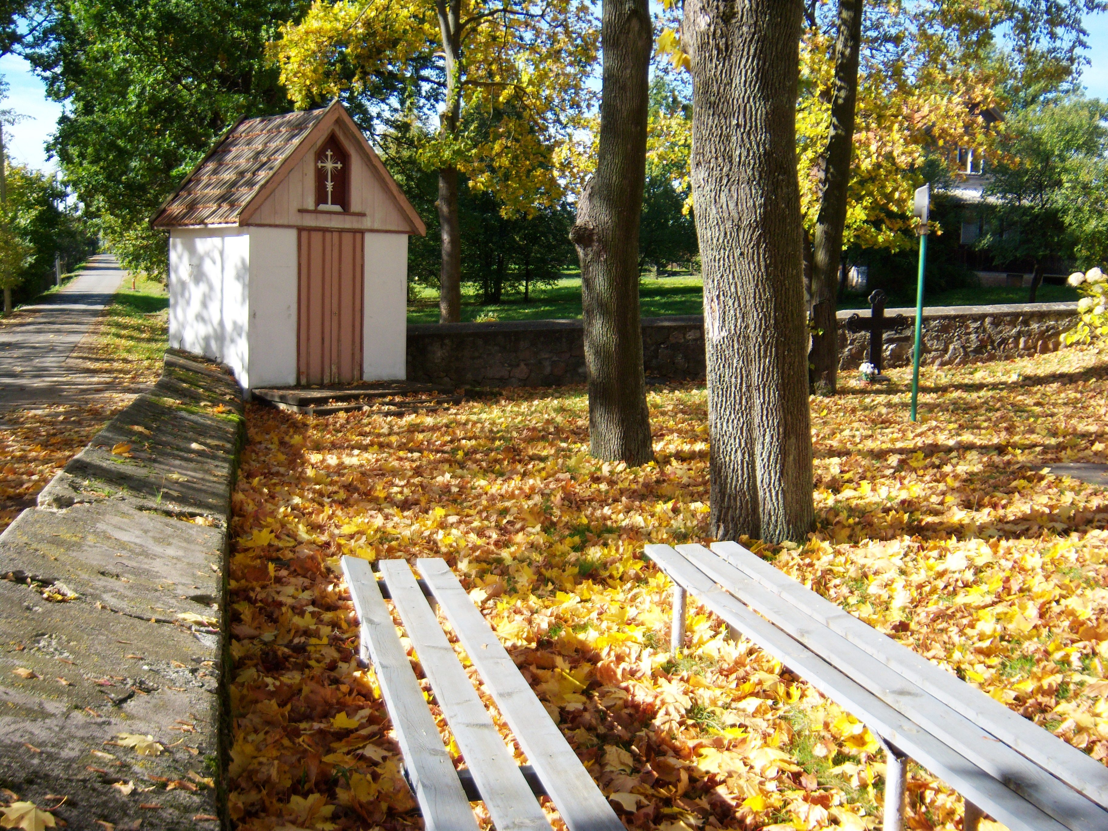 Catholic church in Liudvinavas, chapel, Marijampolė District, Lithuania